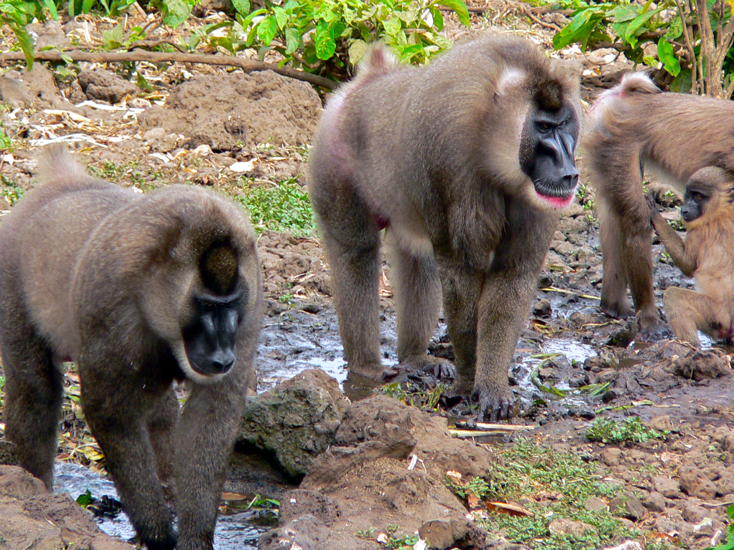 Limbe Wildlife Center, CAMEROON